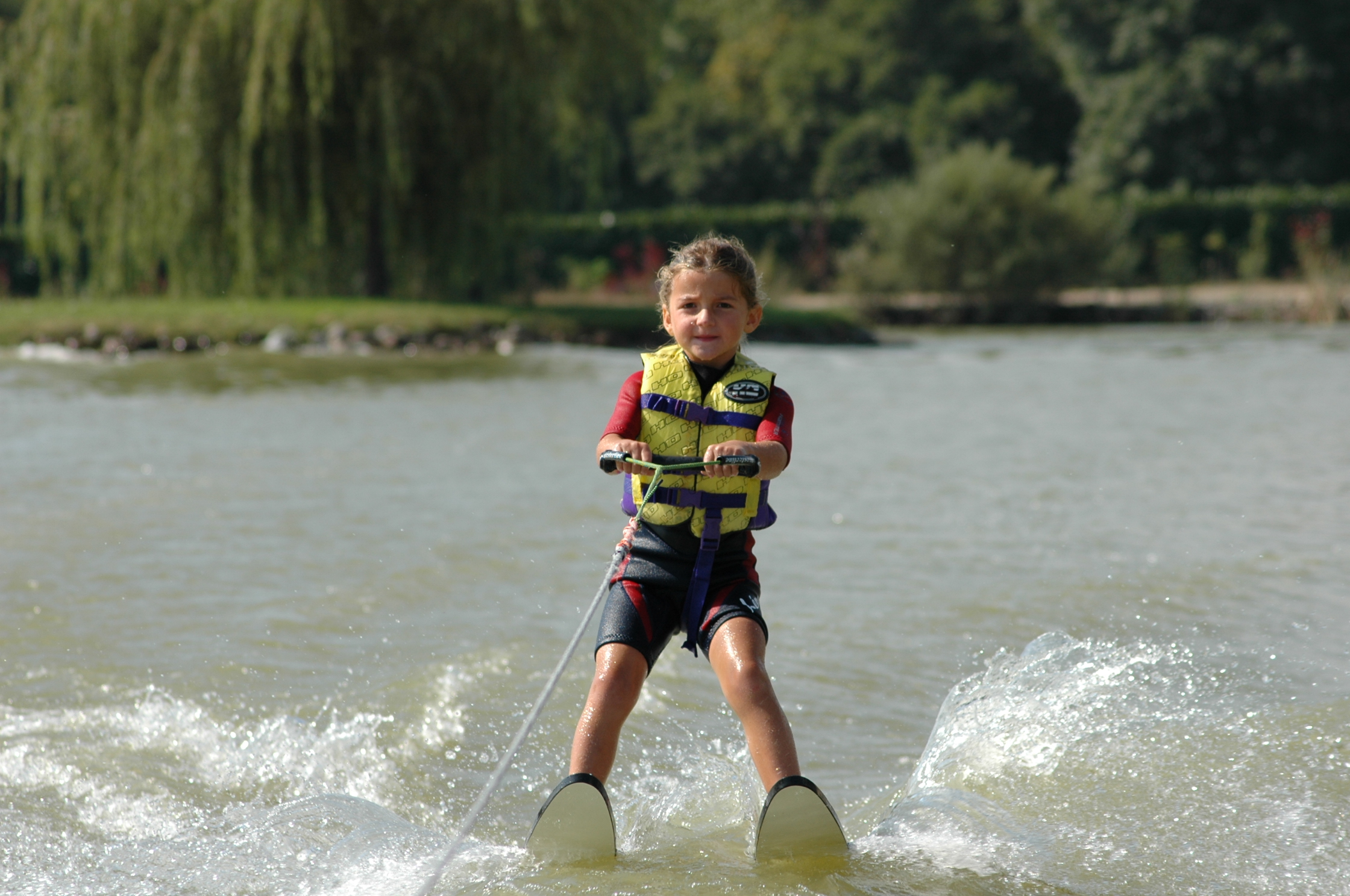 Bi-ski